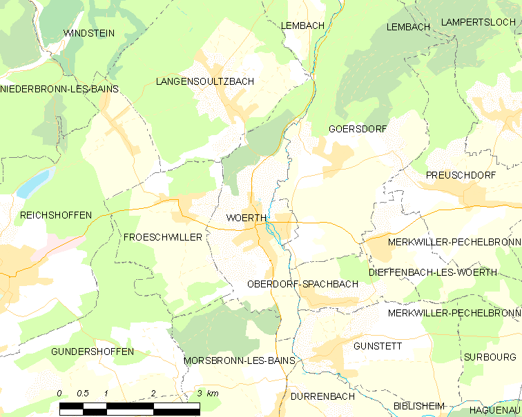 Map of French municipality